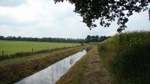 Schaarsbeek at 't Klooster, Aalten, Netherlands